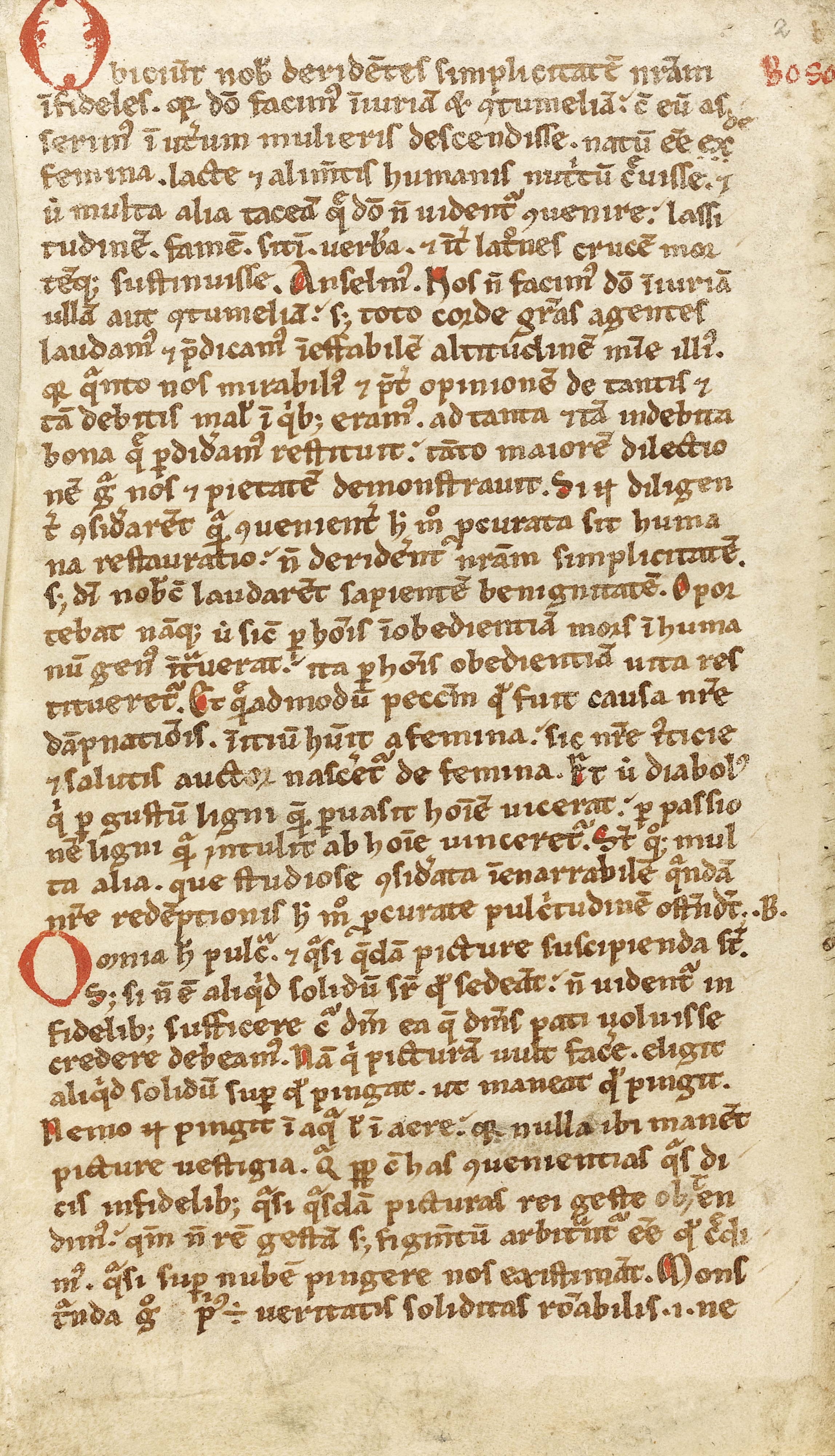 A page from a manuscript of Anselm of Canterbury's Cur Deus Homo coming from Northern France and dating back to mid 12th century.